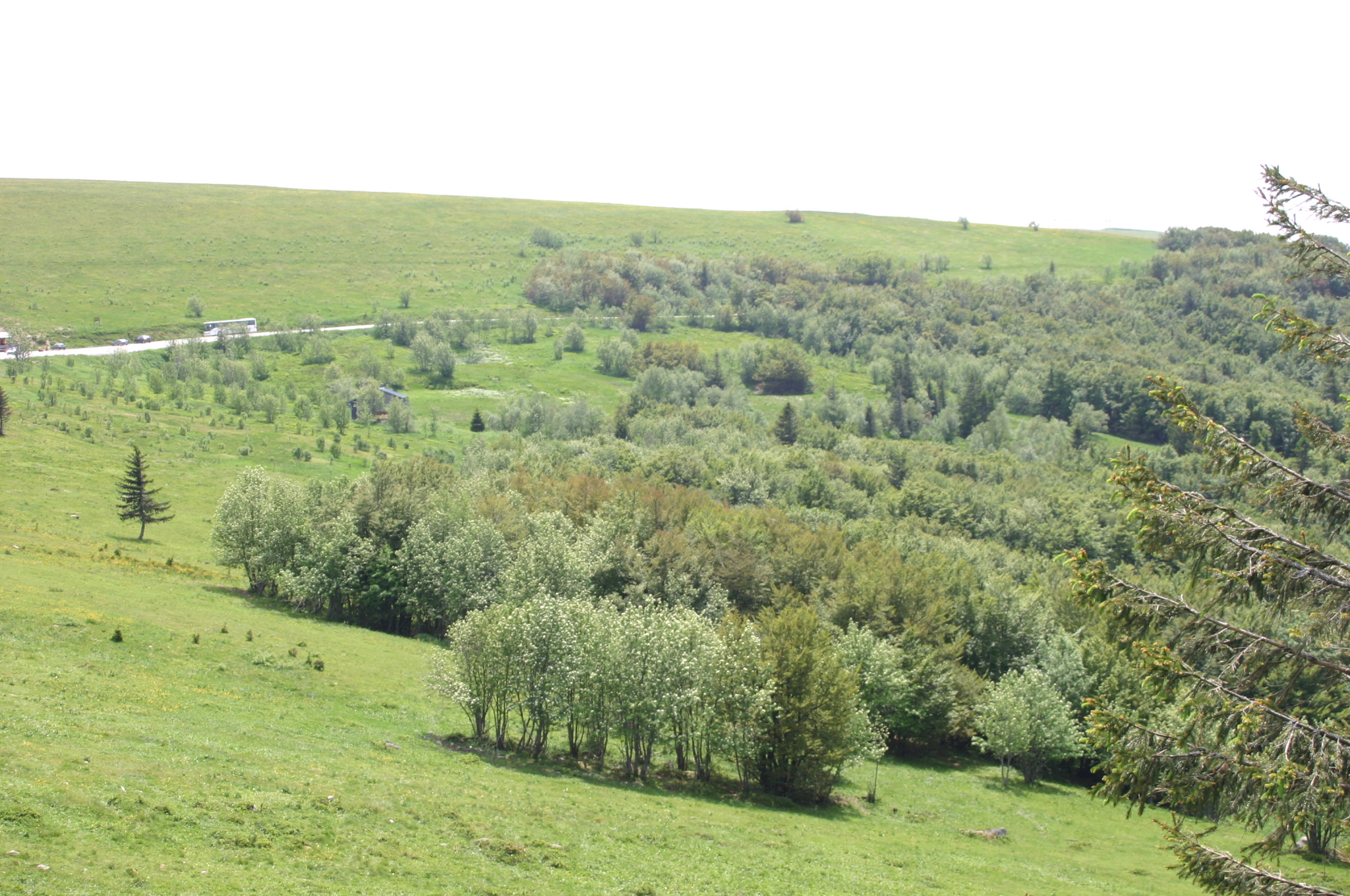 Upper limit of forest in Les Vosges. The blooming trees are Rowan (Sorbus aucuparia).